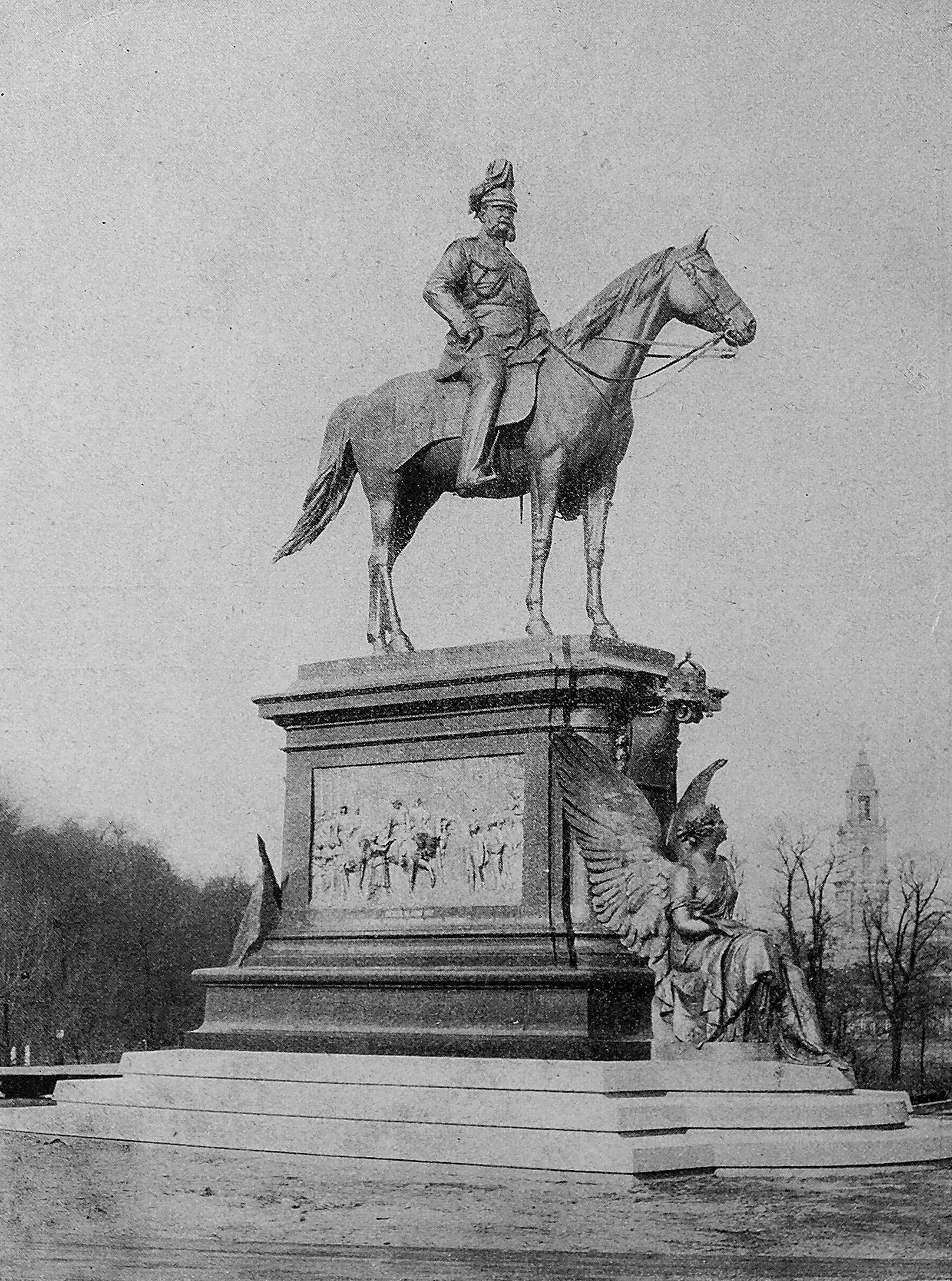 Memorial to Emperor Wilhelm I. of Germany in Potsdam, unveiled in 1901, sculpted by Ernst Herter, destroyed